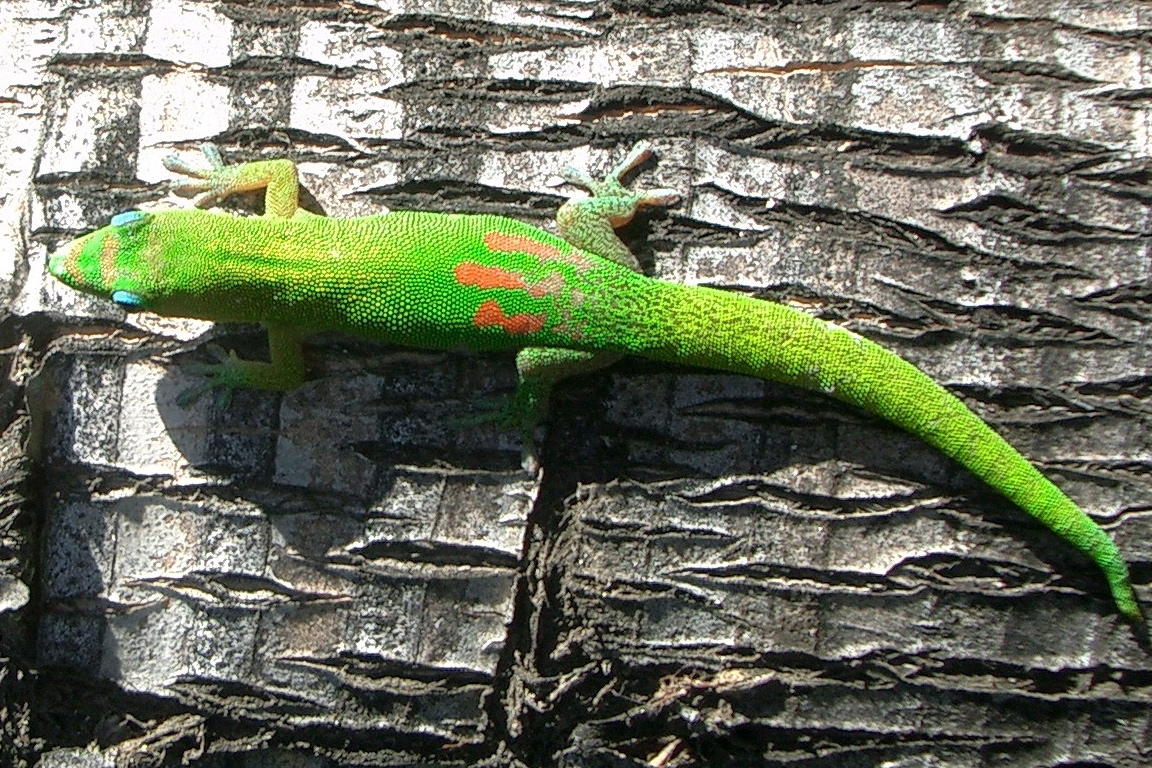 Using the Van der Waals' Force